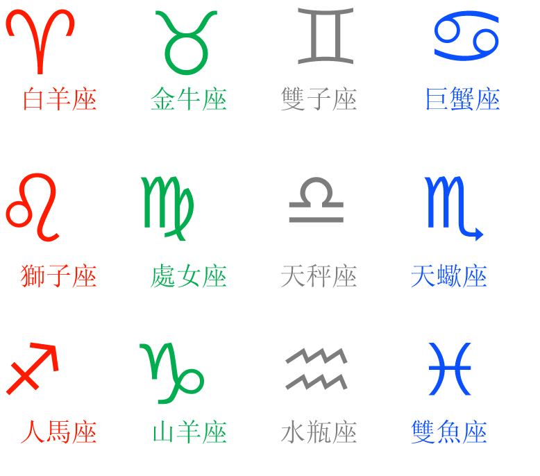 黄道十二宫的标记 (Signs of the zodiac, in Chinese)